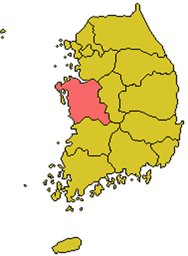 Diocese of Daejeon